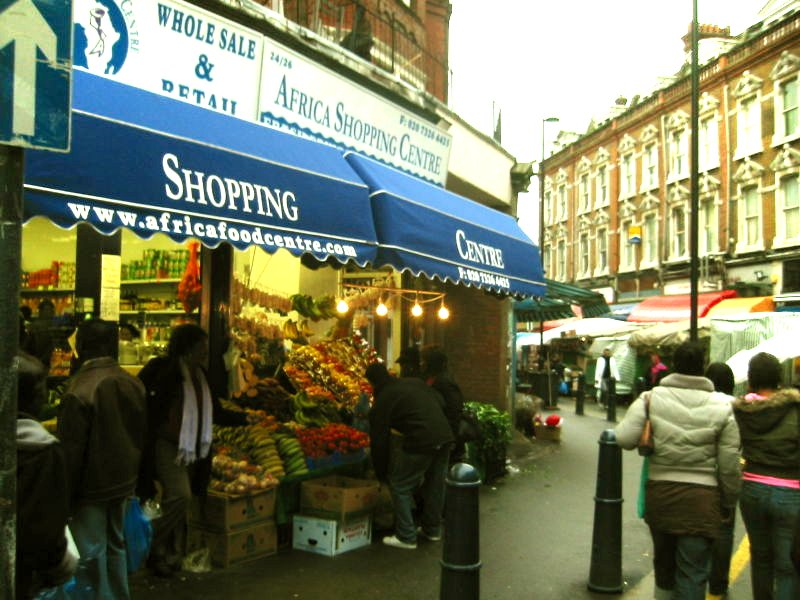 African Shopping centre. Electric Avenue. Brixton. Taken by Felix-Felix.